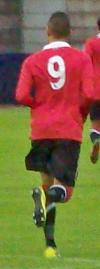 Macheda playing for Man Utd Reserves v Man City Reserves at Ewen Fields, 24 August 2010